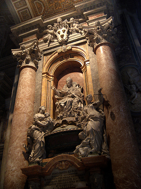 Tomb of Pope Innocent XII, by Filippo Della Valle. St. Peter's Basilica